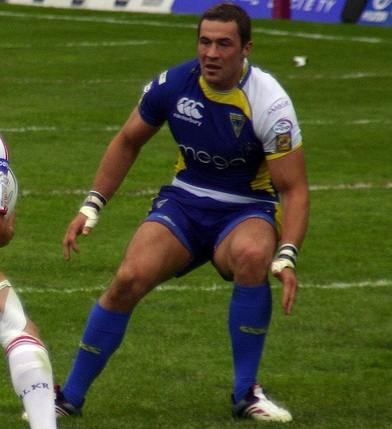 Vinnie Anderson